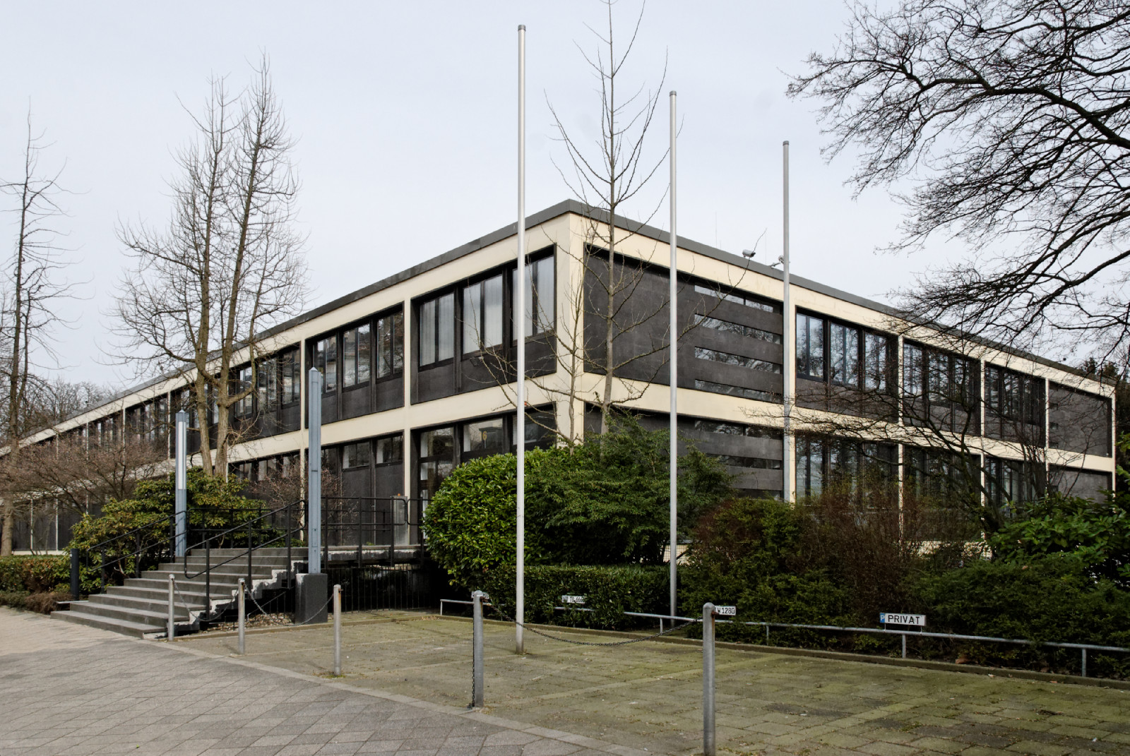 Karl-Arnold-Haus, Palmenstraße 16 in Düsseldorf-Unterbilk, Germany